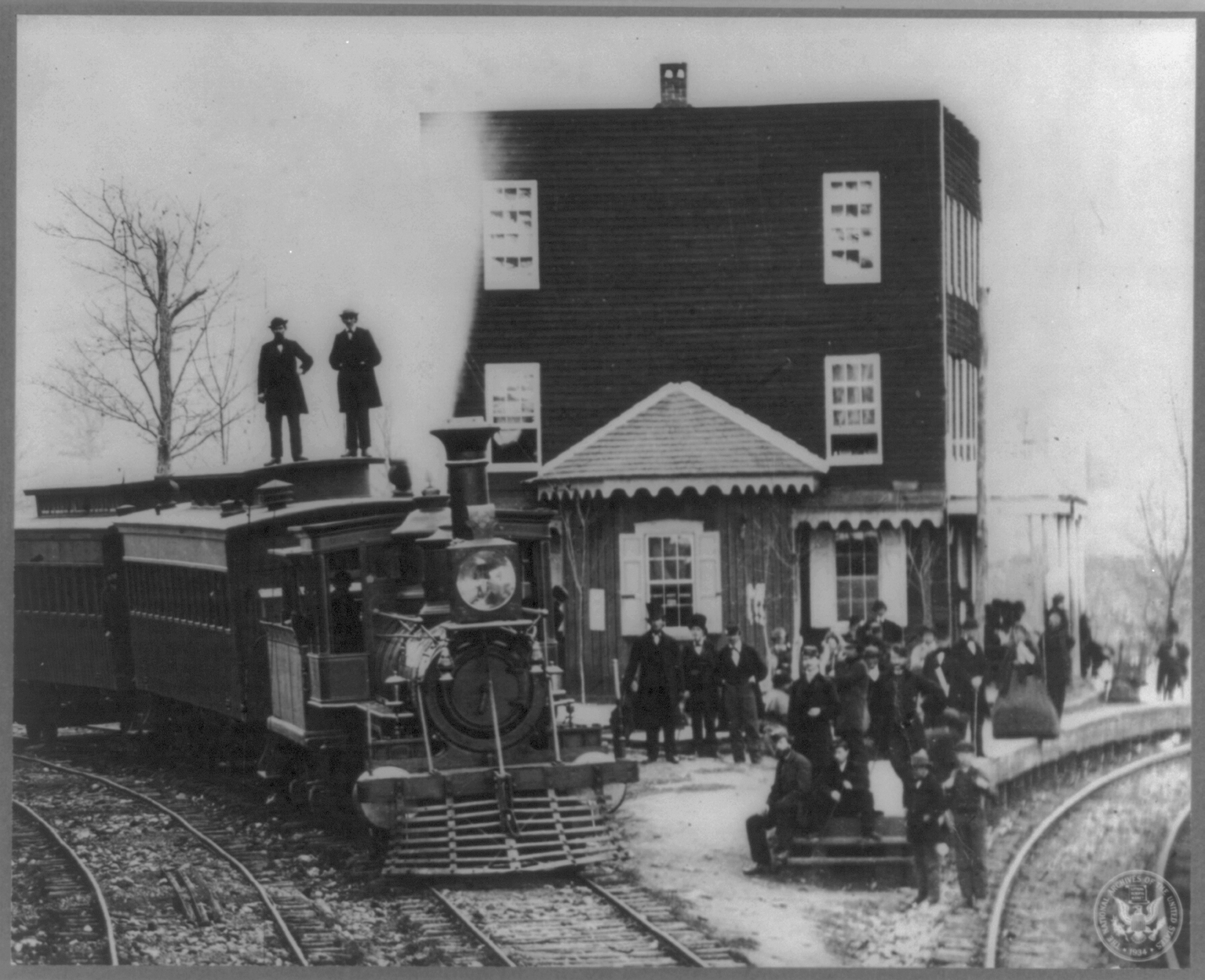 View of Northern Central Railway station, Hanover Junction, Pennsylvania